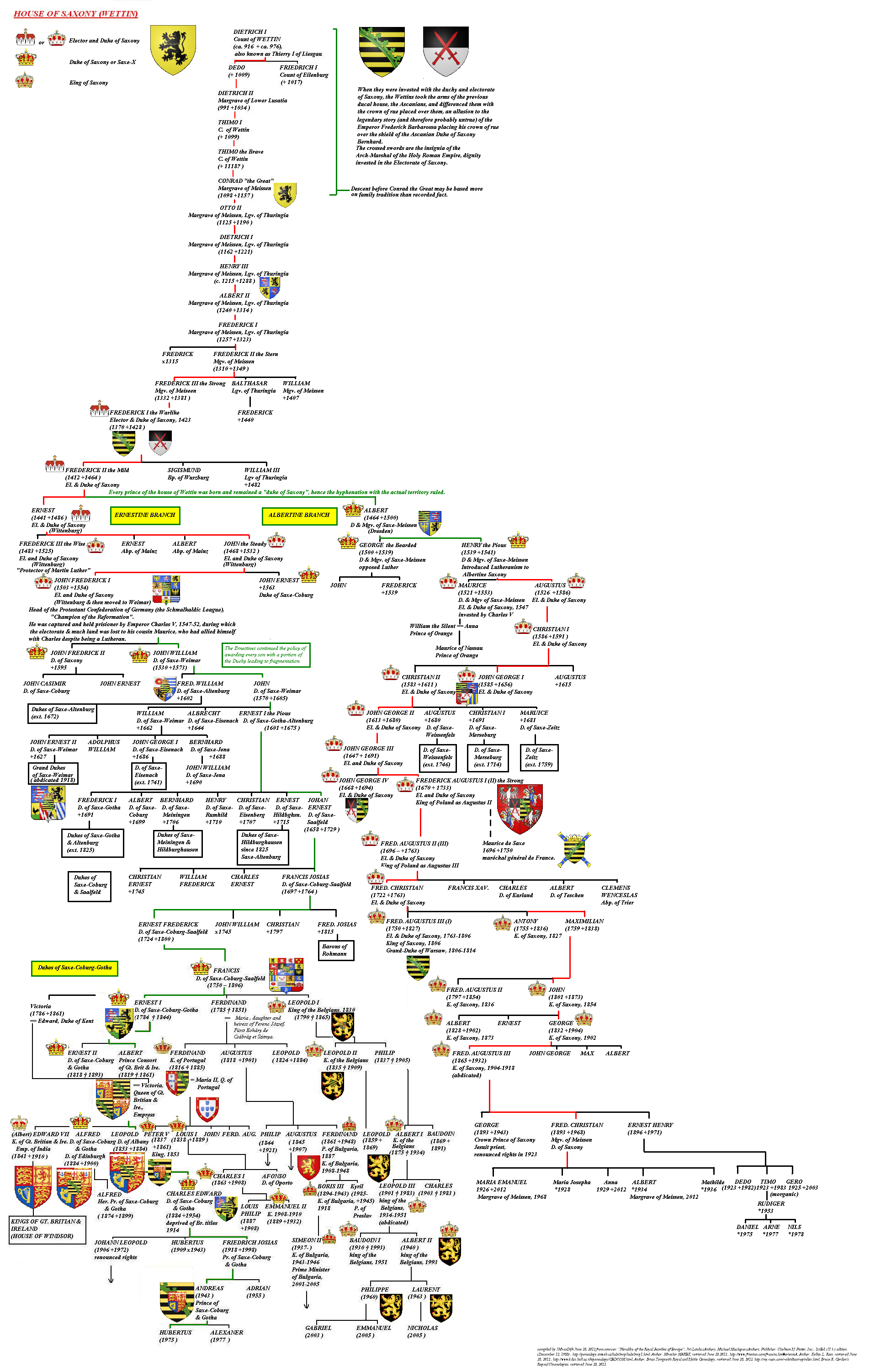 House of Wettin, Dukes and Electors of Saxony family tree stammbaum